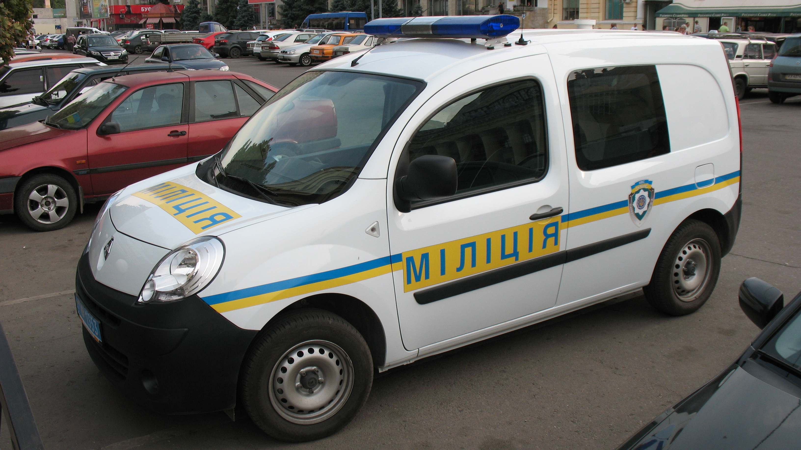 Renault Kangoo II in Kharkov milicia.